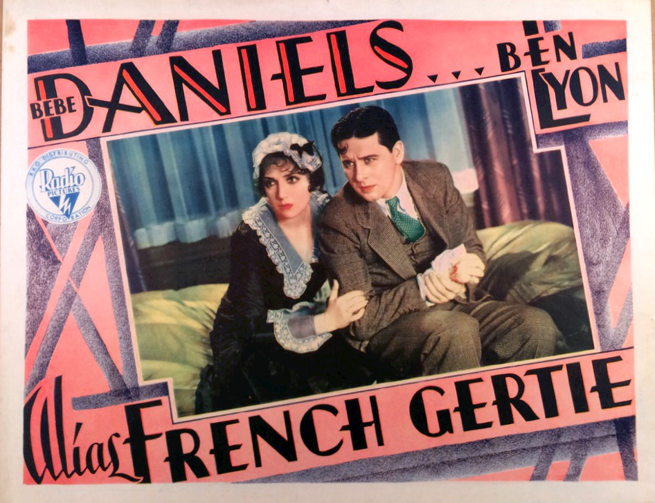 Lobby card from the 1930 film Alias French Gertie. There are no copyright marks on the card.